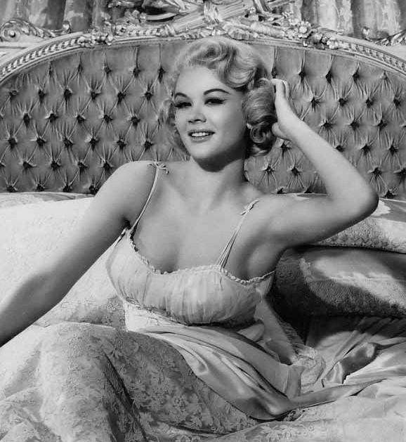 Monique van Vooren in Ten Thousand Bedrooms - publicity still (cropped)